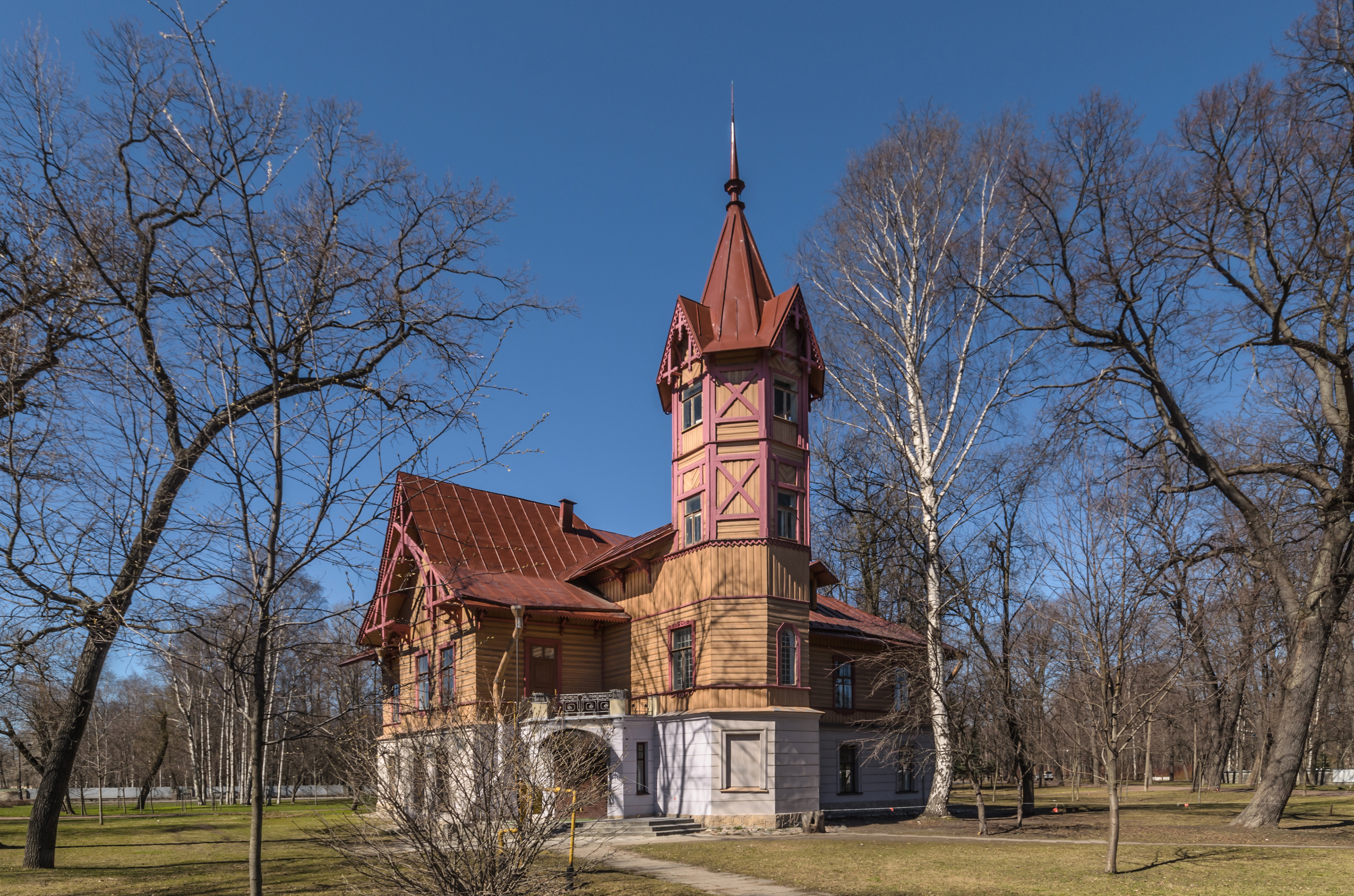 Duchess Kugusheva's House in Saint Petersburg